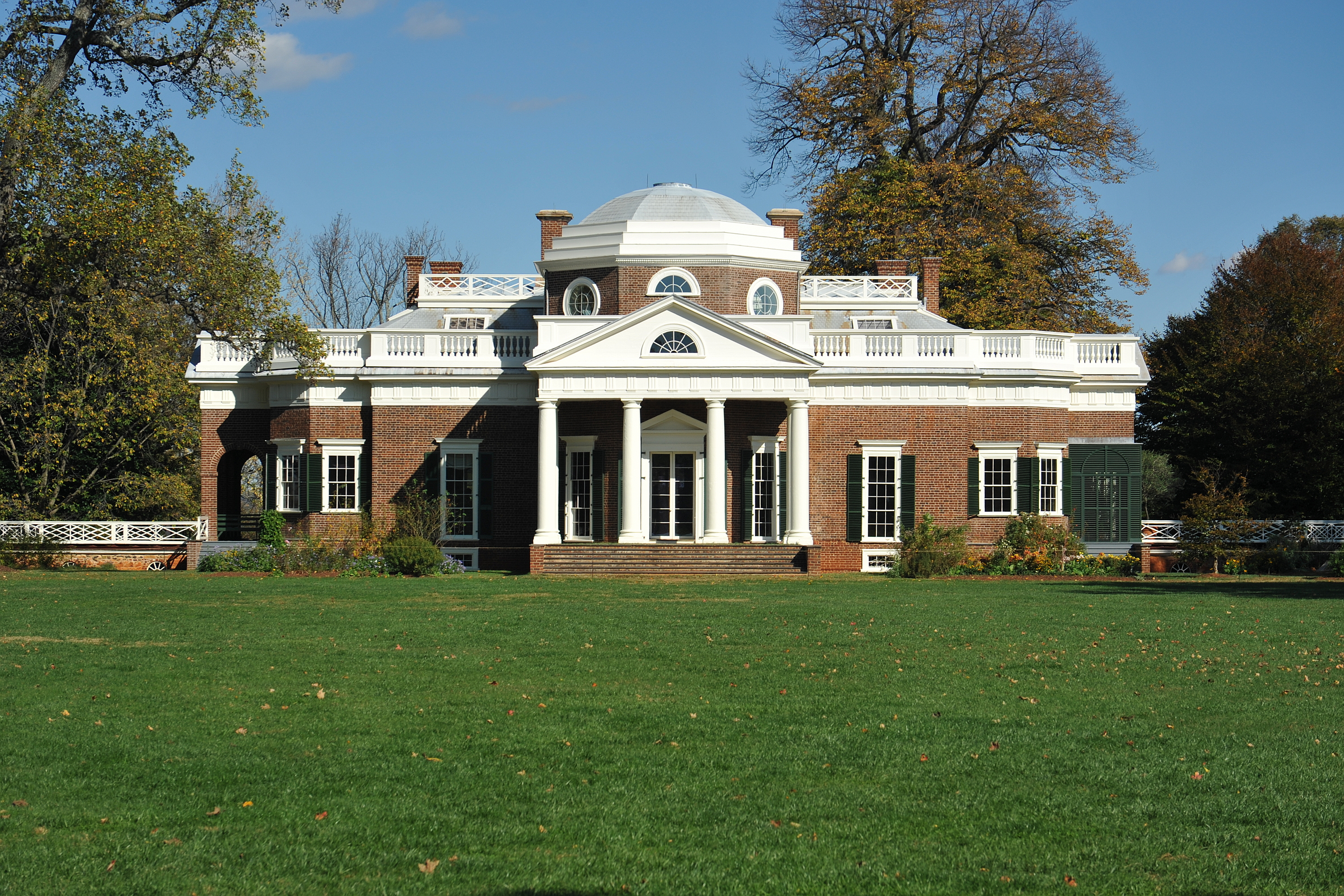 Monticello from the west lawn.